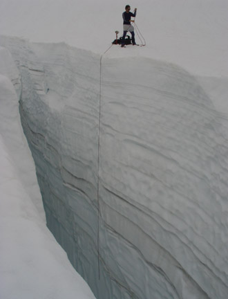 Measuring snow thickness in a crevasse on Easton Glacier, North Cascades. (Pelto